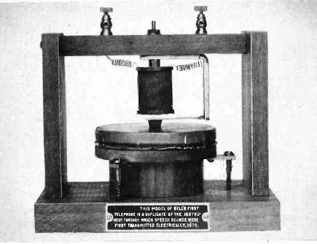 A model of the first telephone transmitter/receiver (microphone/speaker) invented by US scientist Alexander Graham Bell in 1875. It is now known as the "Gallows" instrument due to its shape. It was the first device through which sounds were transmitted, but could not transmit intelligible speech. Bell designed it after his seminal June 2, 1875 experiment in which he realized that a vibrating metal reed could transmit not only musical tones but the more complicated waveforms of speech, and it was built by his collaborator, Thomas A. Watson. It functioned as both a dynamic microphone and a speaker. Bell found that two of these devices wired in a circuit with a battery functioned as a crude bidirectional telephone; sounds spoken into one would be heard faintly from the other. It took another year of work before intelligible speech could be transmitted. This is probably not the transmitter used in Bell's famous first communication of speech on March 10, 1876: "Come here, Watson, I need you"; Bell had improved electromagnetic transmitter designs by then, and some sources say a liquid transmitter was used on that occasion. It consists of a parchment diaphragm stretched over a cup-shaped sound collector, attached to an iron armature on a springy metal reed, near a pickup coil of wire wound on an iron core attached to the binding posts at top. It was included in Bell's telephone patent of March 7, 1876. This image shows a model of the original device; Thomas A. Watson wrote in 1915 (p. 1017 below) that "all that is left" of the original was in the National Museum in Washington. Information from Thomas A. Watson (May 18, 1915) How Bell invented the telephone, Trans. of the American Inst. of Electrical Engineers, Vol. 34, Part I, p. 1011-1021 Plaque on model says: "This model of Bell's first telephone is a duplicate of the instrument through which speech sounds were first transmitted, 1875"